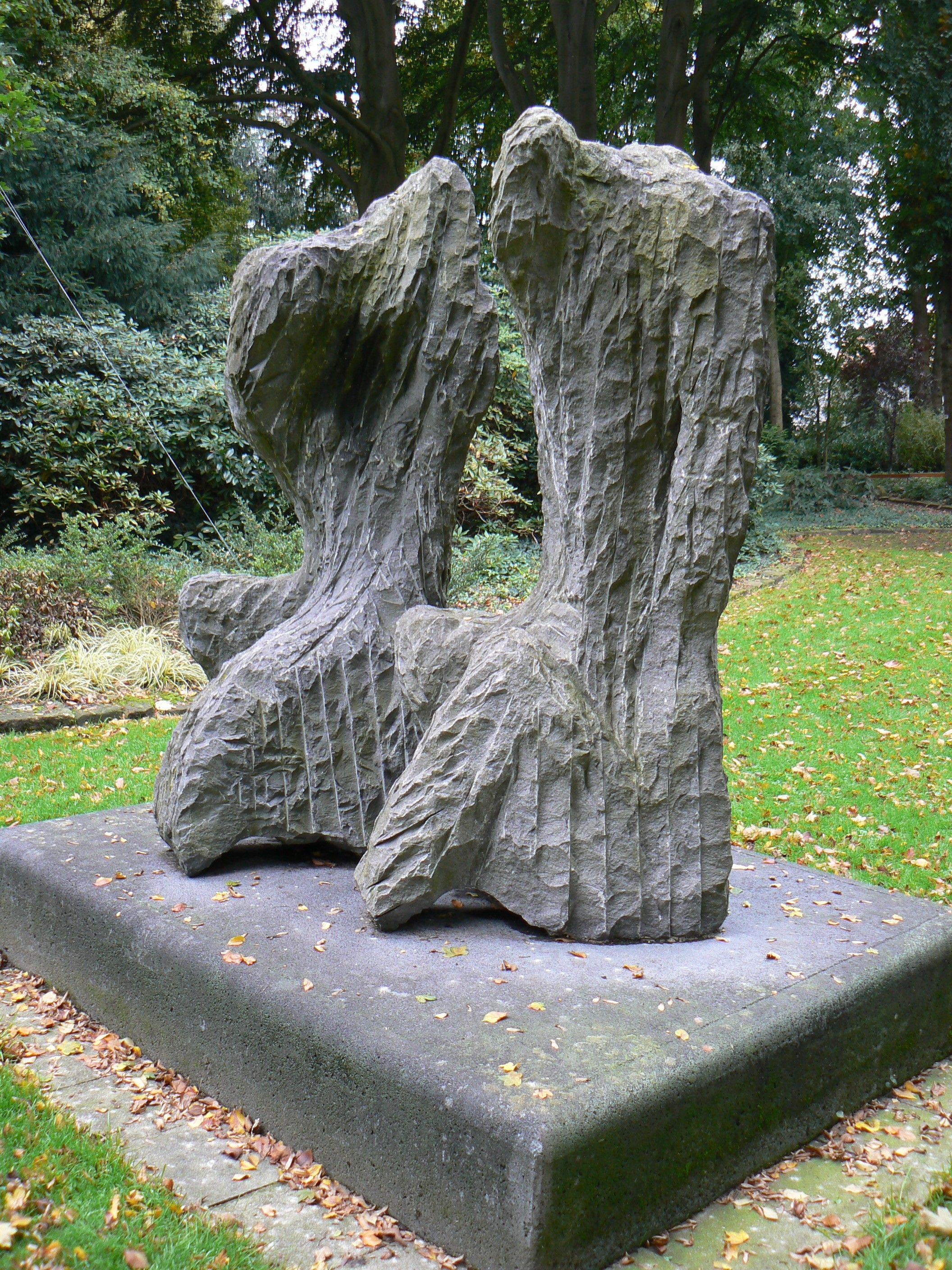 sculpture by Eugene Dodeigne in Nordhorn/Germany